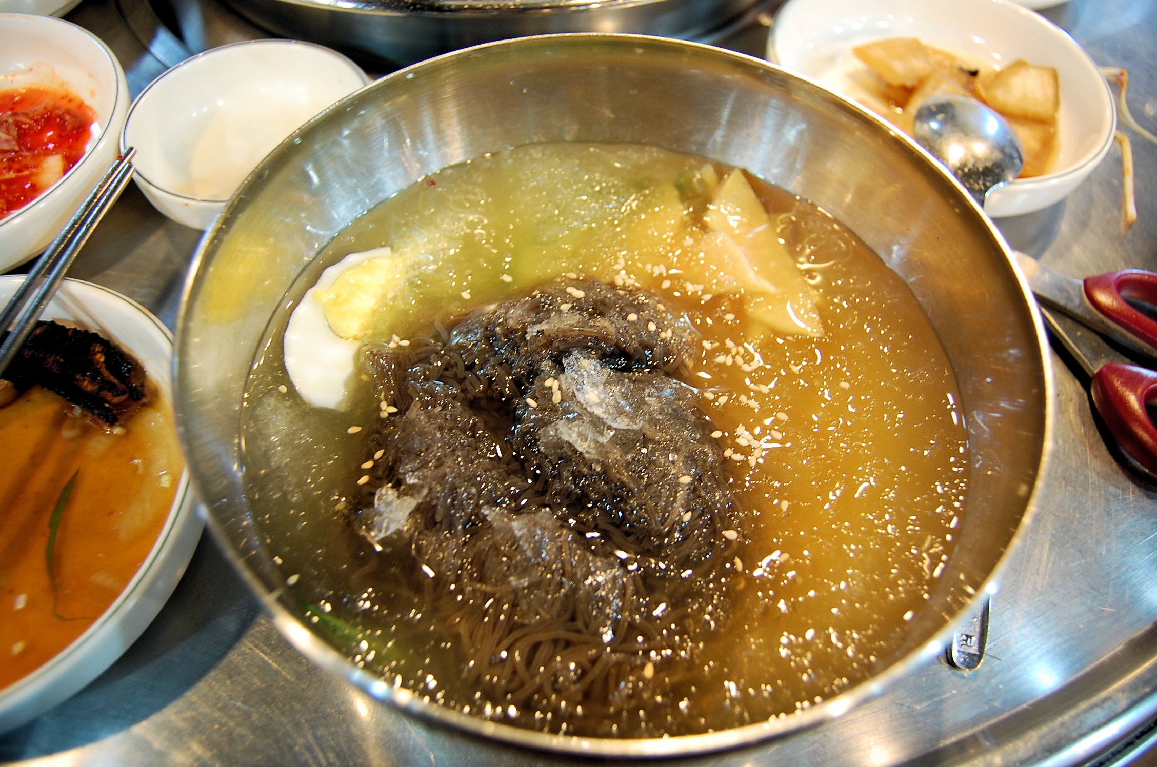 Cold noodle soup bowl. This is actually traditional Korean treat after the fried meat meal. The soup was really cold with pieces of snow floating in it. I was a bit suspicious of the taste of it. However, it was actually quite good.